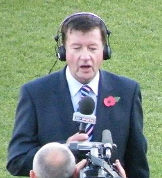 English commentator Eddie Hemmings, at Parramatta Stadium during the 2008 Rugby League World Cup.